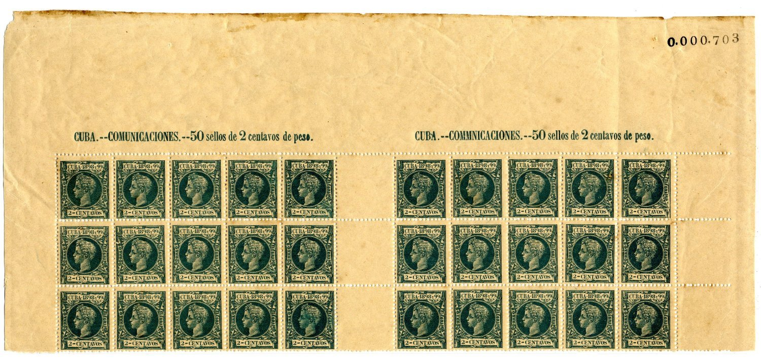 Partial sheet of 2 centavos stamps from Cuba depicting a vertical gutter margin dividing the sheet in half.